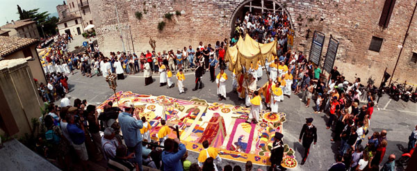 Spello (Italy): Procession of Corpus Domini